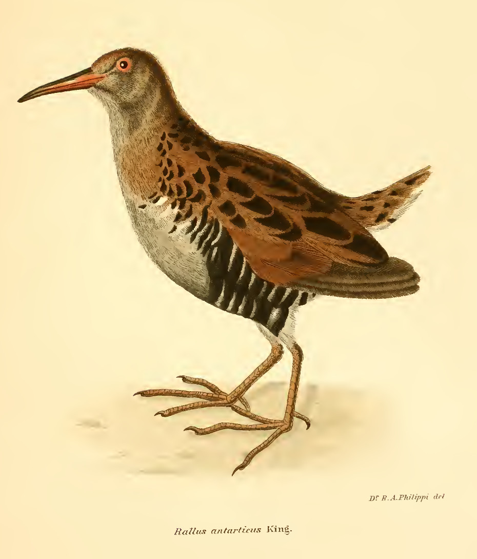 Illustration in Figuras i descripciones de aves chilenas, Anales del Museo Nacional de Chile, 1902